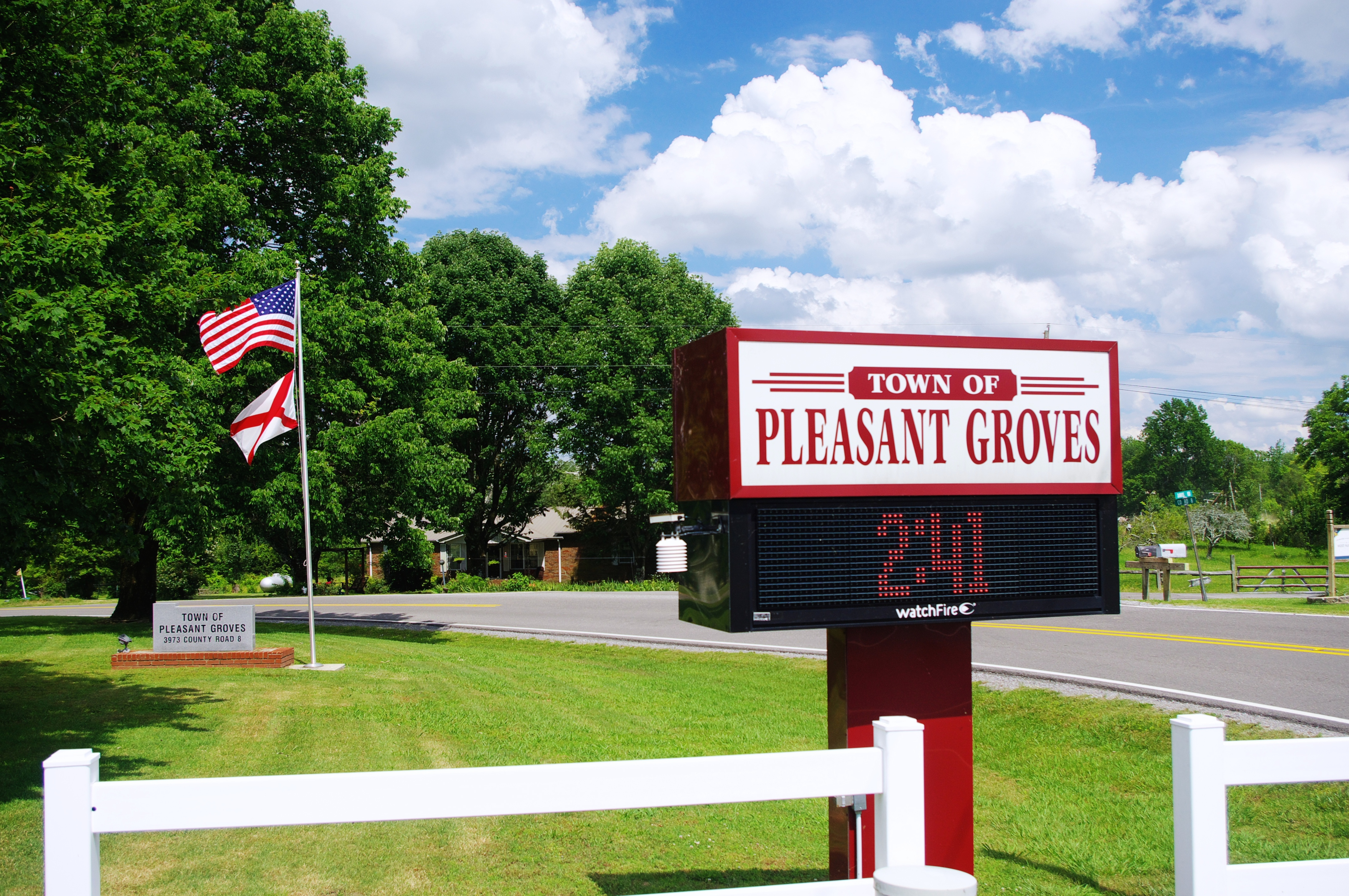 Sign in Pleasant Groves, Alabama, United States.